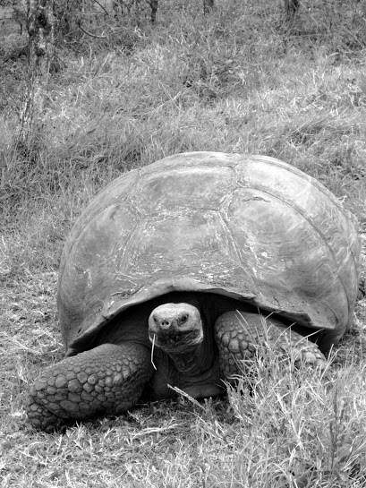 From Wikipedia, the free encyclopedia The Galápagos tortoise or Galápagos giant tortoise (Chelonoidis nigra) is the largest living species of tortoise and 10th-heaviest living reptile, reaching weights of over 400 kg (880 lb) and lengths of over 1.8 meters (5.9 ft). With life spans in the wild of over 100 years, it is one of the longest-lived vertebrates. A captive individual lived at least 170 years. The tortoise is native to seven of the Galápagos Islands, a volcanic archipelago about 1,000 km (620 mi) west of the Ecuadorian mainland. Spanish explorers, who discovered the islands in the 16th century, named them after the Spanish galápago, meaning tortoise. Shell size and shape vary between populations. On islands with humid highlands, the tortoises are larger, with domed shells and short necks - on islands with dry lowlands, the tortoises are smaller, with "saddleback" shells and long necks. Charles Darwin's observations of these differences on the second voyage of the Beagle in 1835, contributed to the development of his theory of evolution.